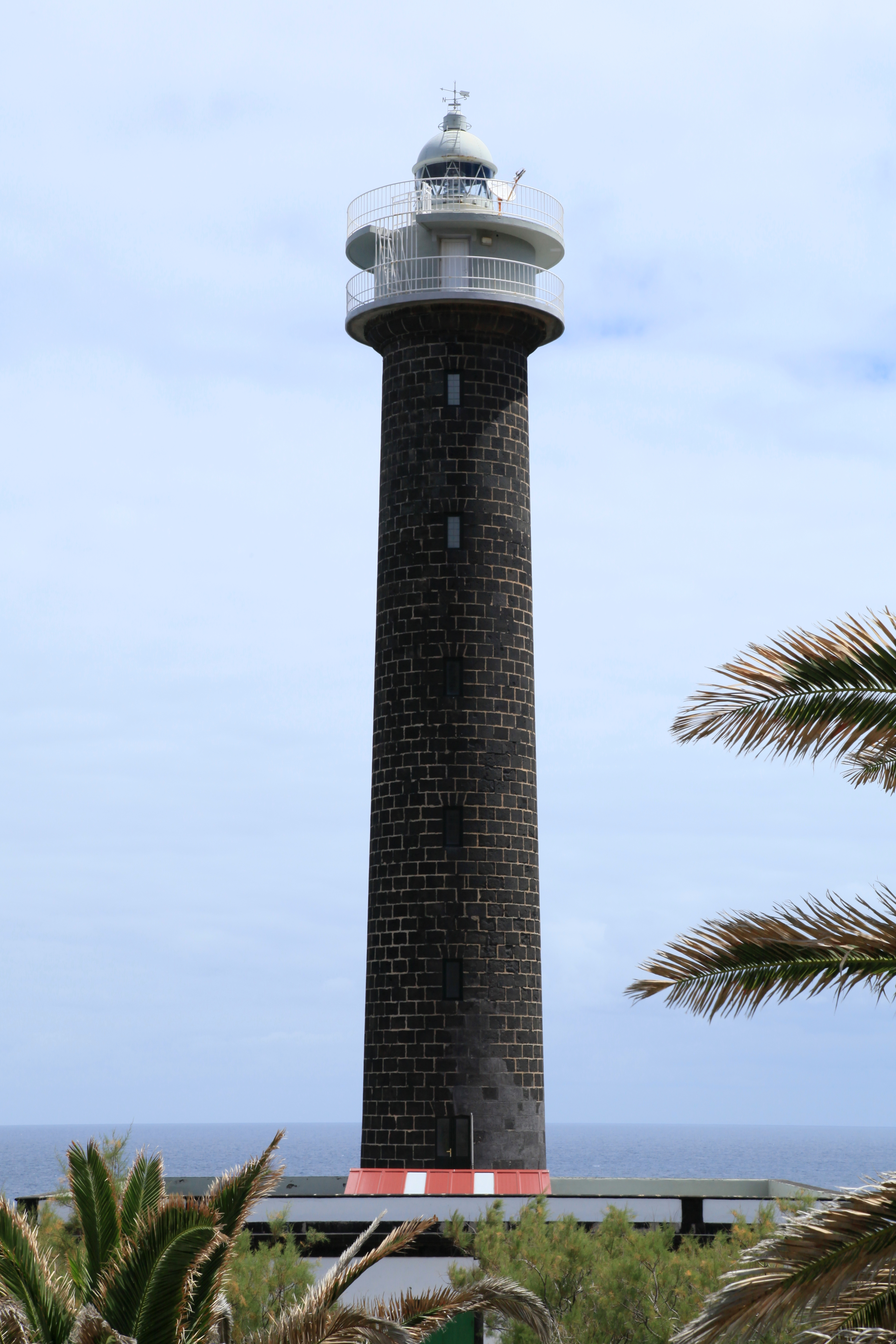 Faro de Punta Cumplida, Carretera del Faro in Barlovento, La Palma, Canary Island, Spain